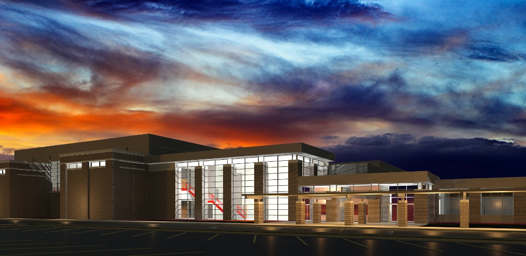 Picture of what LFO looks like after the new Jerry Jones Gymnasium.